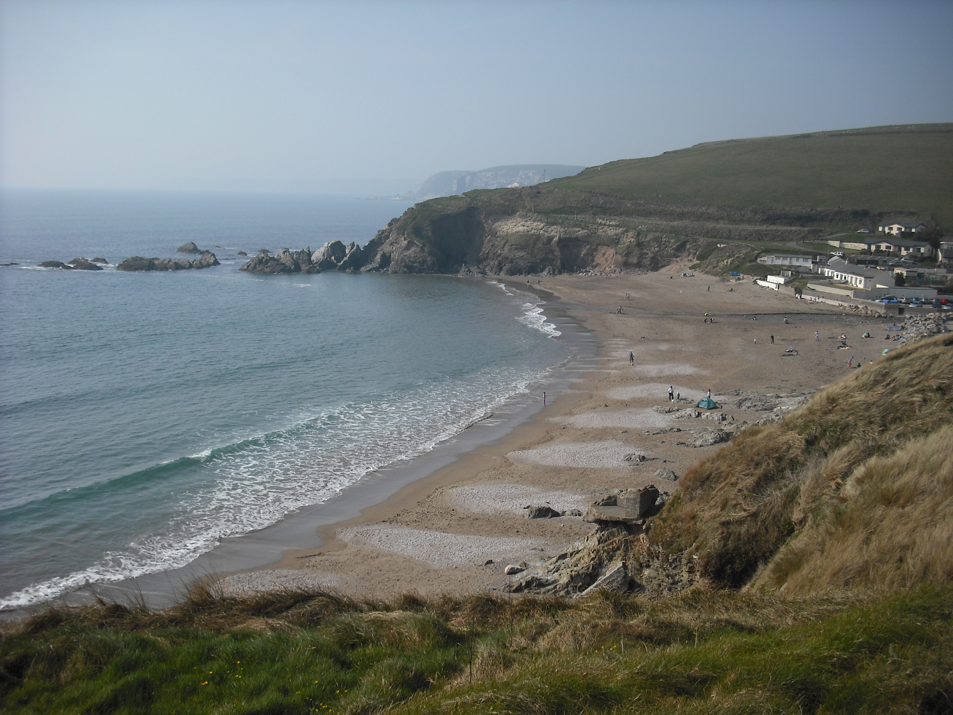 A photograph of the beach at Challaborough, Devon, England during a beautiful spring day.